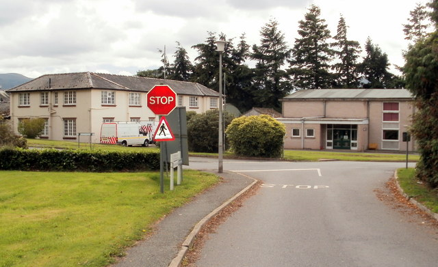 Road junction, Bronllys Hospital